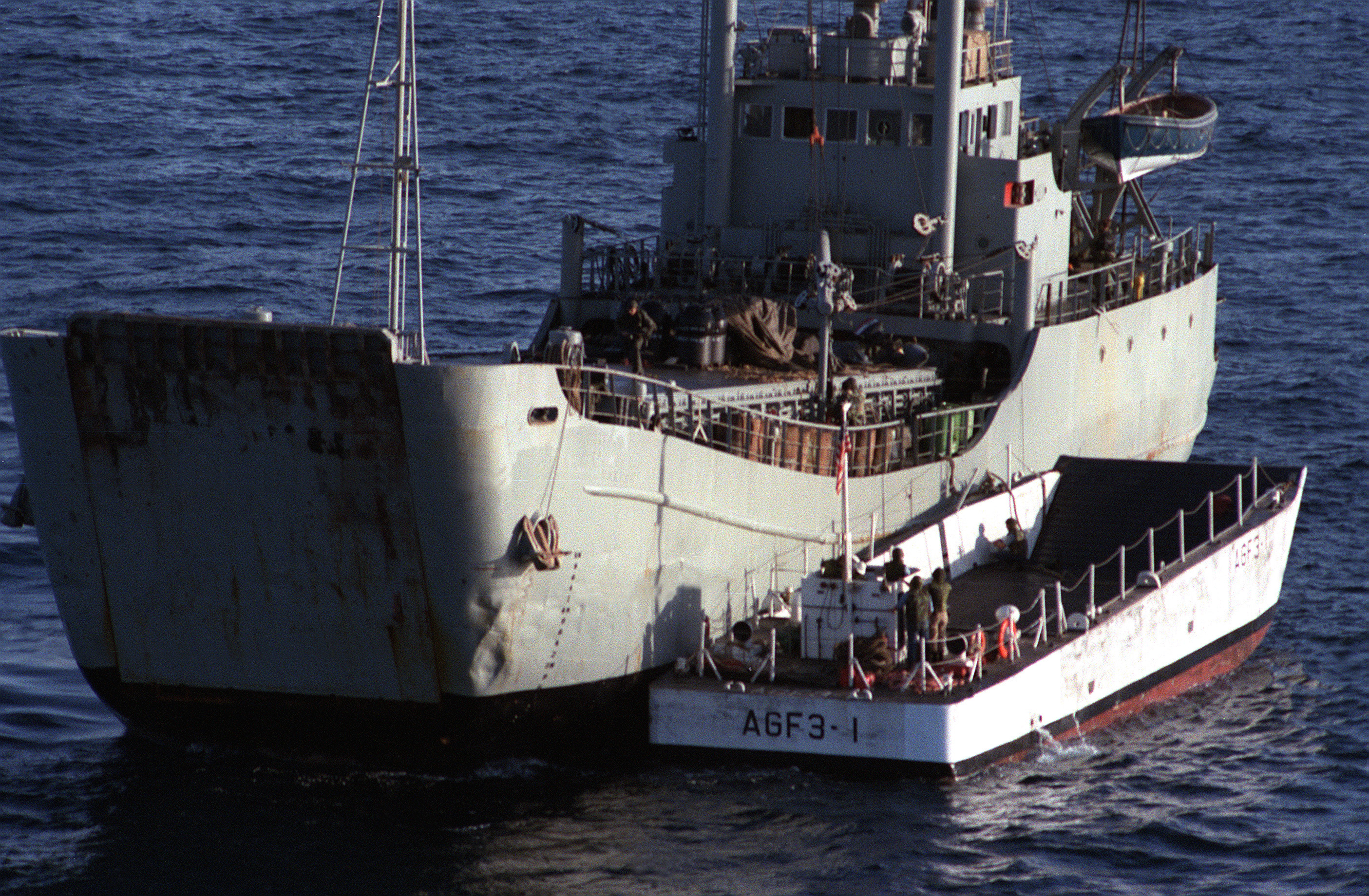 An aerial port view of the captured Iranian mine-laying ship IRAN AJR with a U.S. Navy landing craft alongside. (Former Arya Rakhsh)